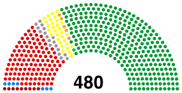 Seat map of the results of the Japanese Election of 2005, created using Slashme's parliamentary seat results creator tool. LDP (296) DPJ (113) Kōmeitō (31) Independents (18) JCP (9) SDP (7) PNP(4) NPN(1) NPD(1)